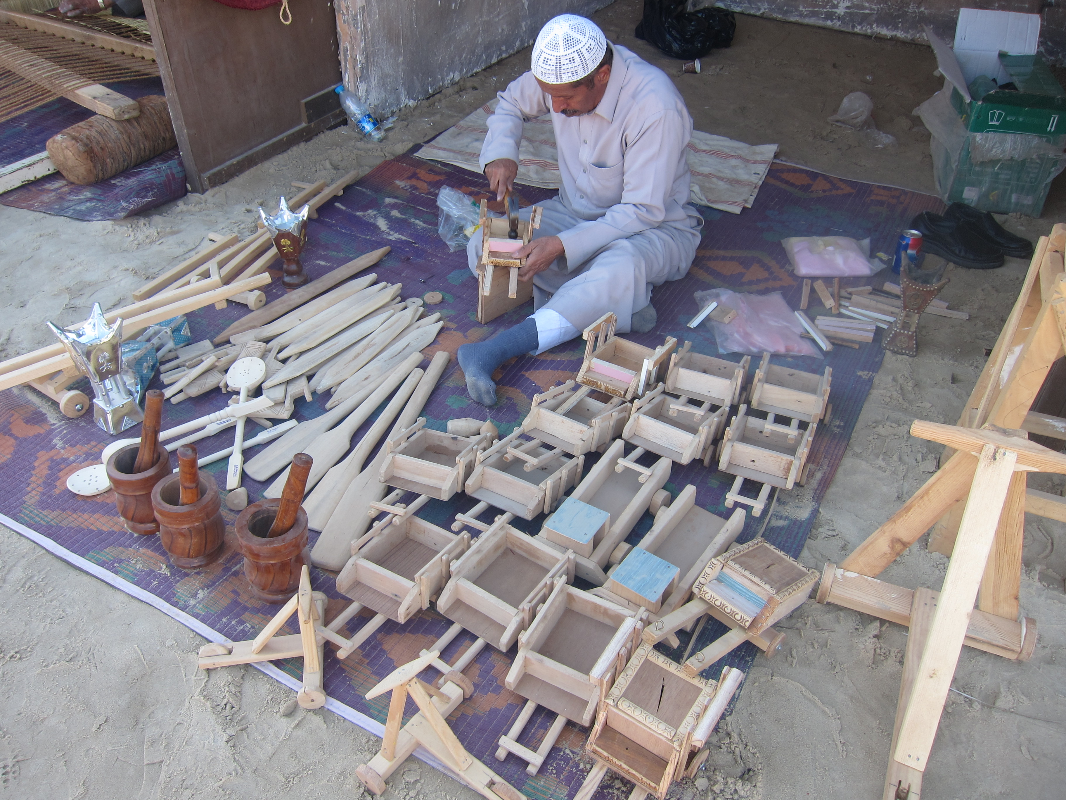 Saudi Culture - സൗദി സംസ്കാരം